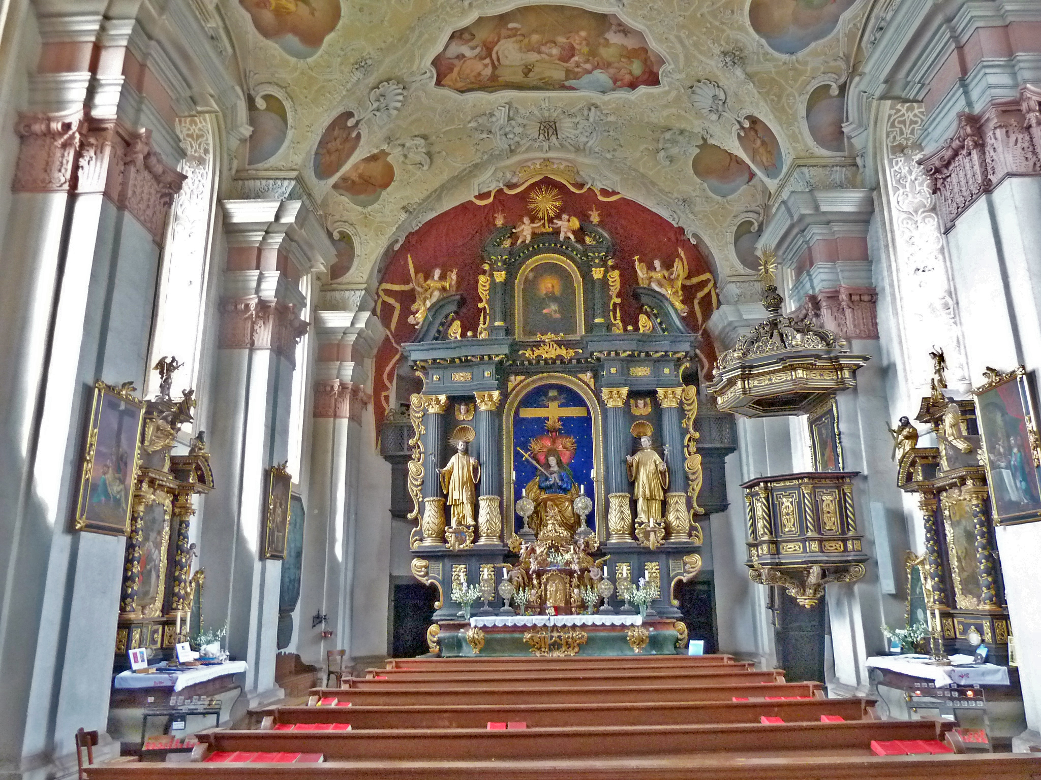 Maria Freienstein Church interior